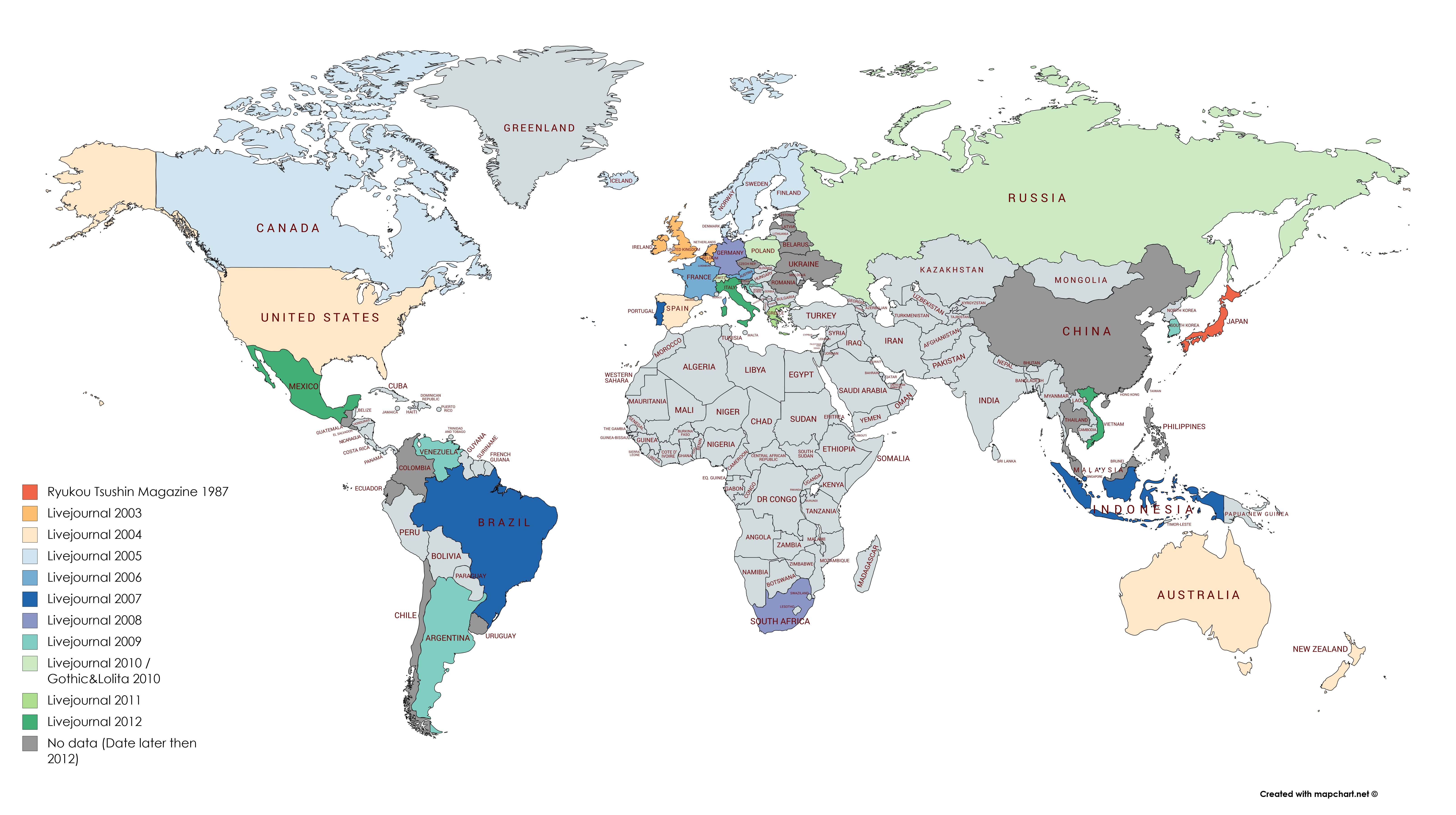 Lolita Fashion Spread Timelined on Livejournal.